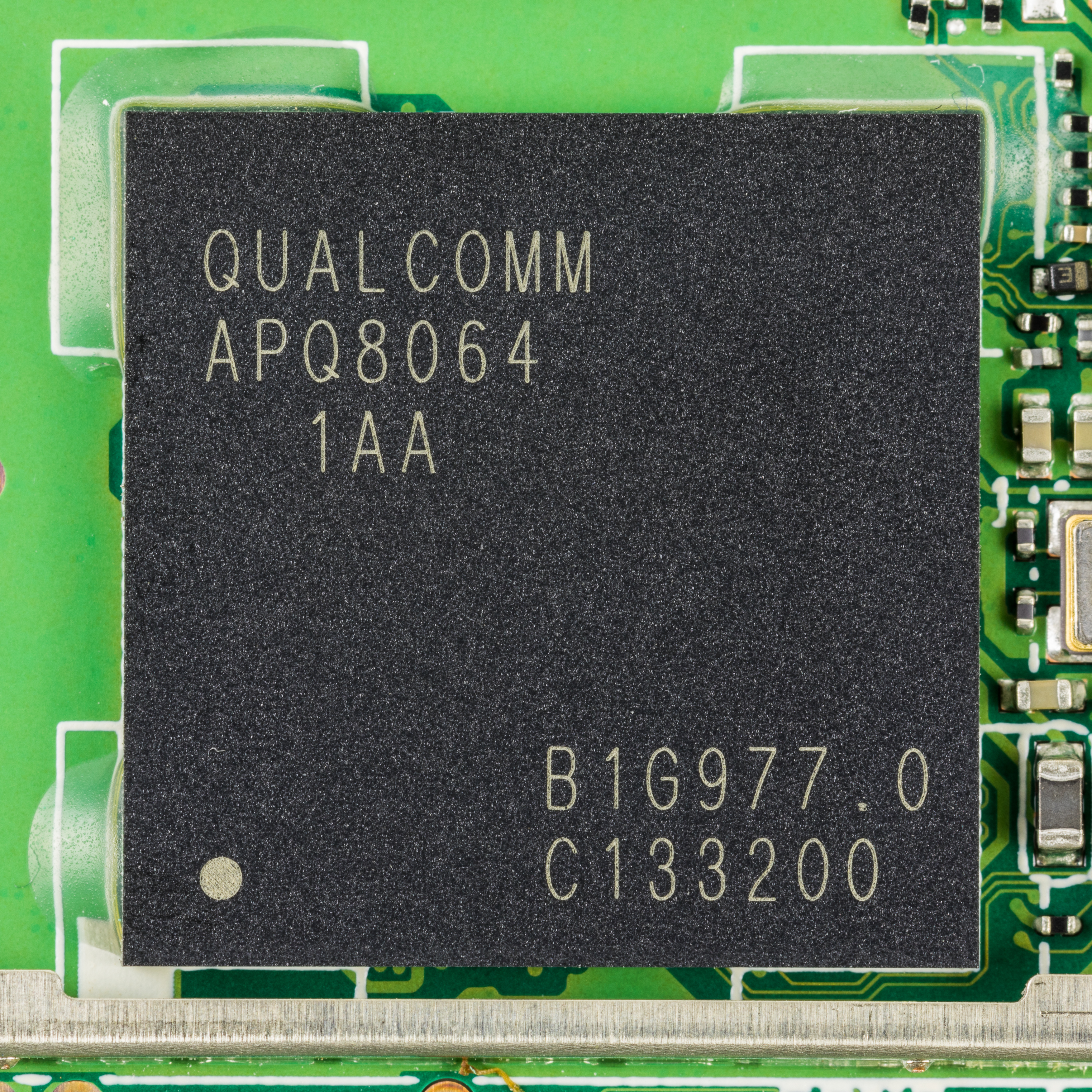 Nexus 7 (2013) - main board - Qualcomm APQ8064 - Snapdragon 600 Processor